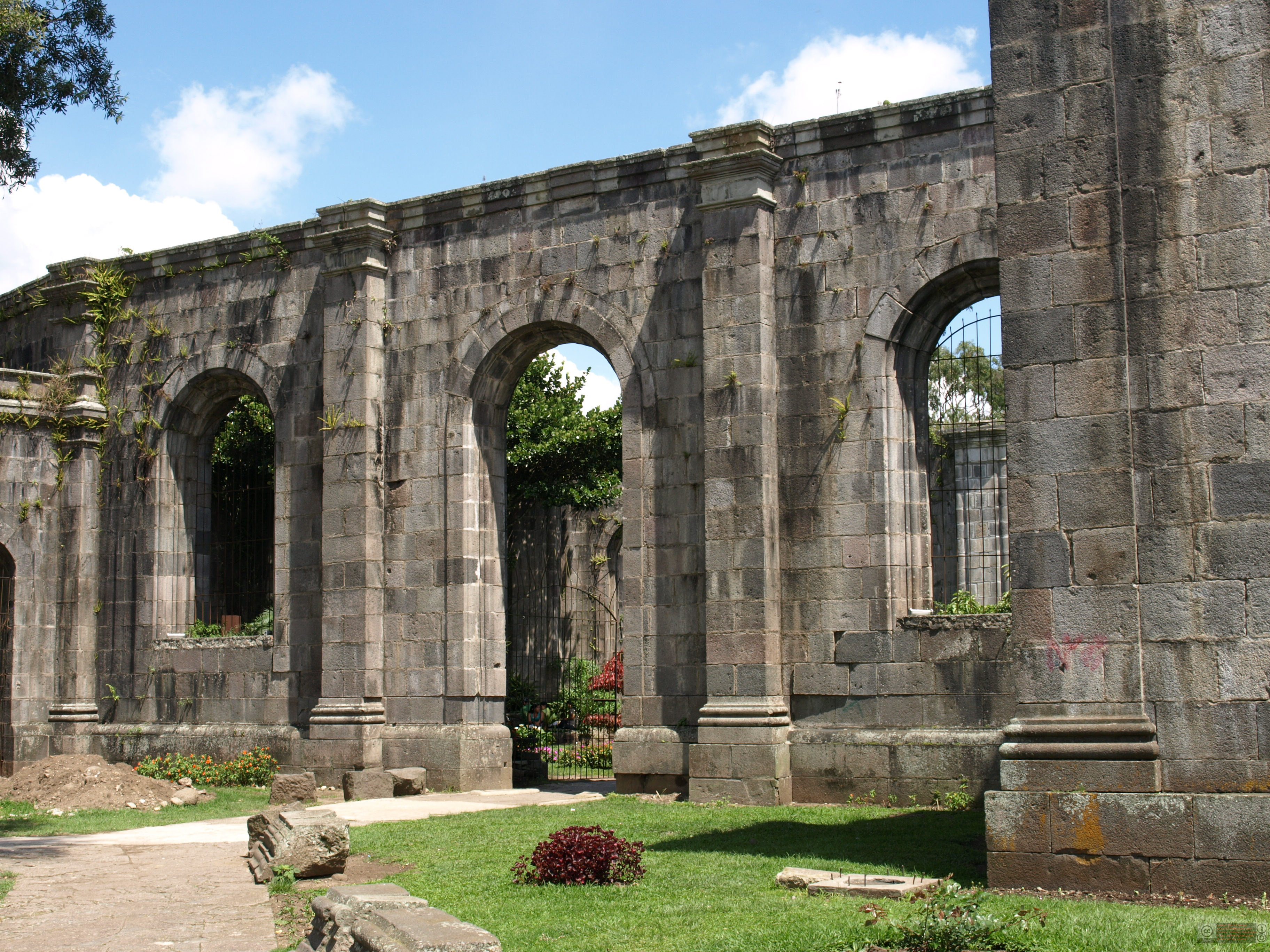 View of the Ruins of James the Apostle Parish in Cartago, Costa Rica.